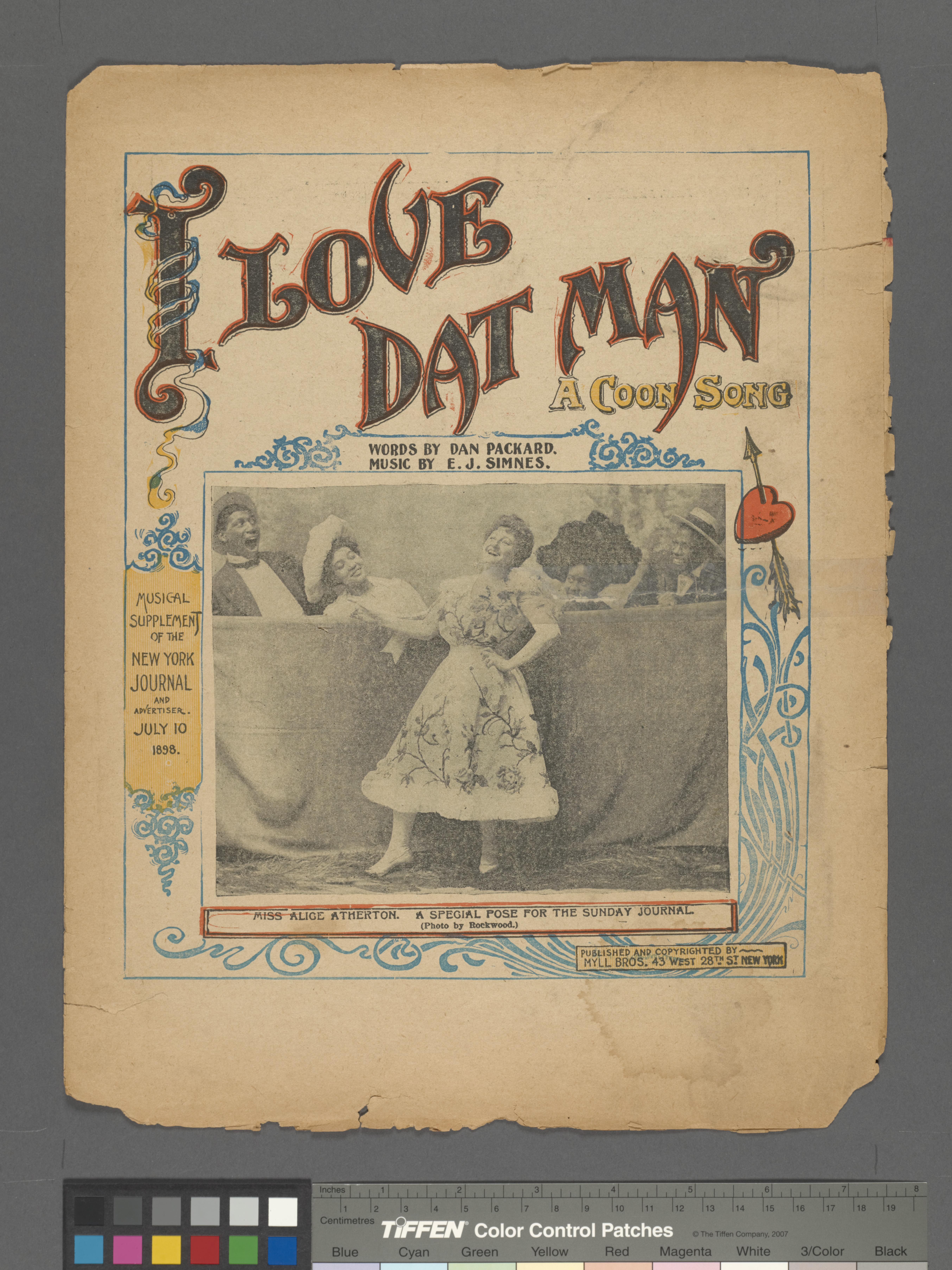 On cover: Miss Alice Atherton. Descriptive subtitle: A coon song. Musical supplement of the New York Journal and Advertiser. July 10, 1898. Statement of responsibility : words by Dan Packard ; music by E.J. Simnes.